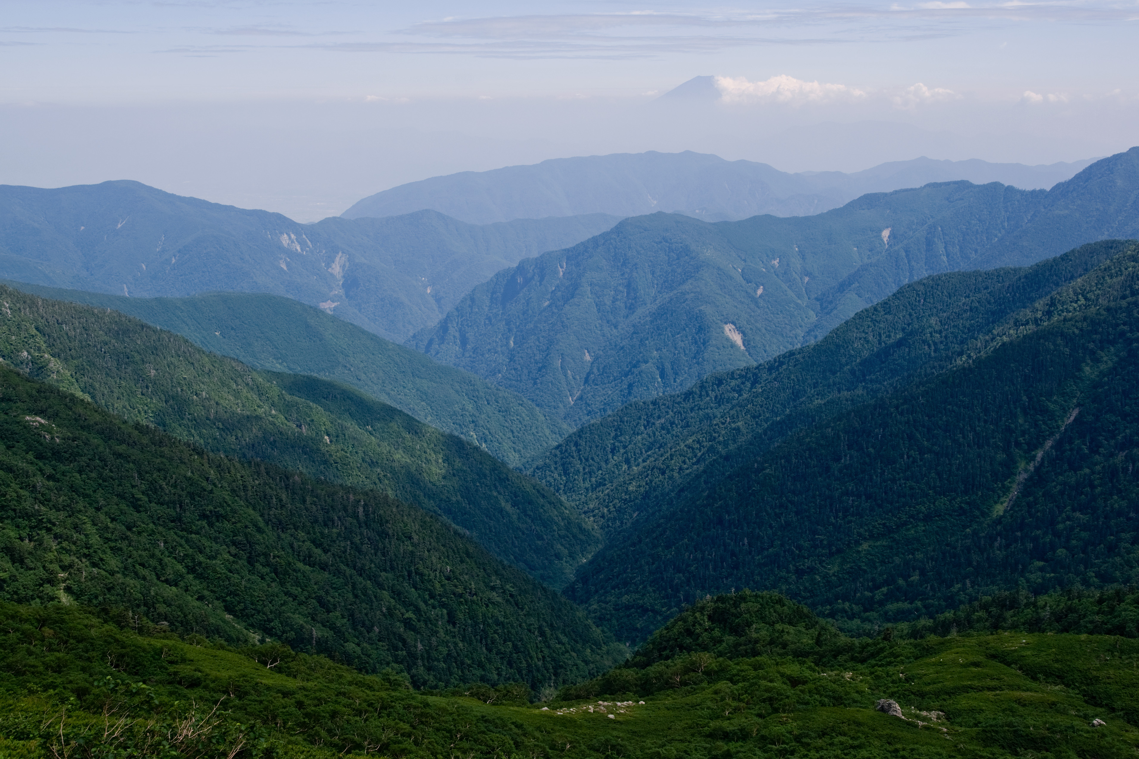 Mt. Fuji and Mt. Kushigata, Yamanashi Pref., Japan.